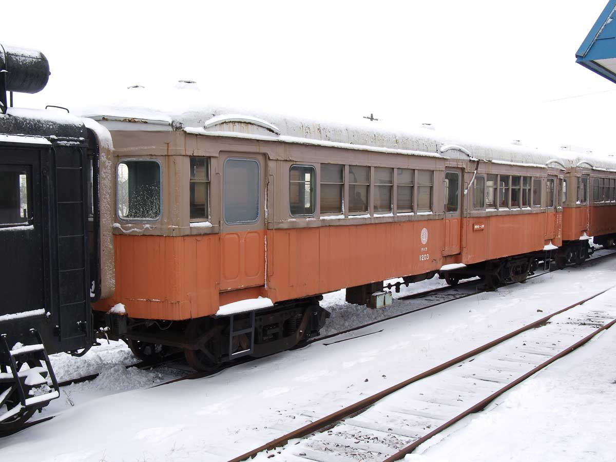 Passenger car type NAHAFU1200 of Tsugaru railway at Tsugaru-goshogawara station. This car was EMU type550 of Seibu railway.